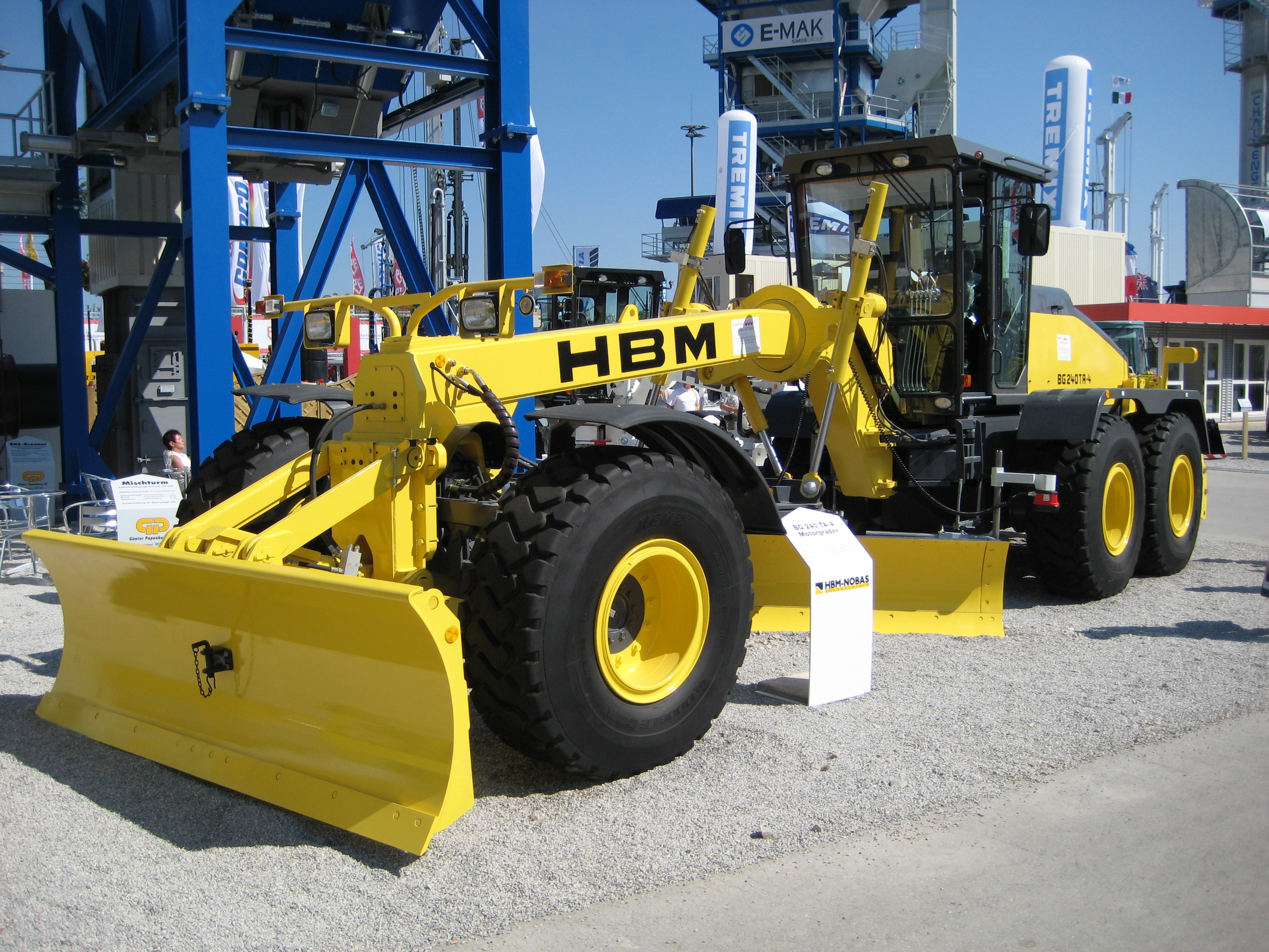 BAUMA 2007, Grader, HBM-Nobas